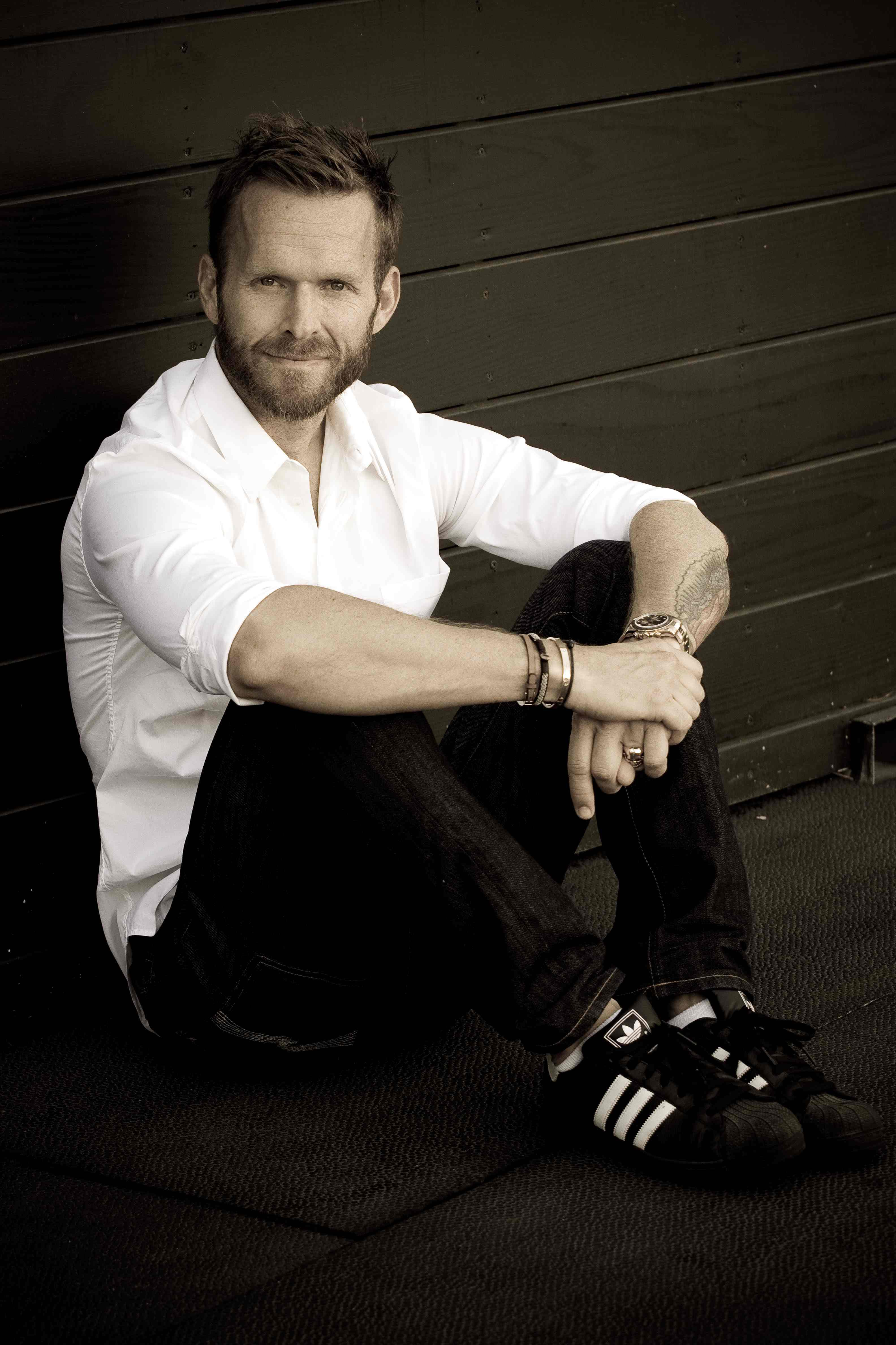 Robert "Bob" Harper (born August 18, 1965) is a personal trainer who appears on the United States television series The Biggest Loser.